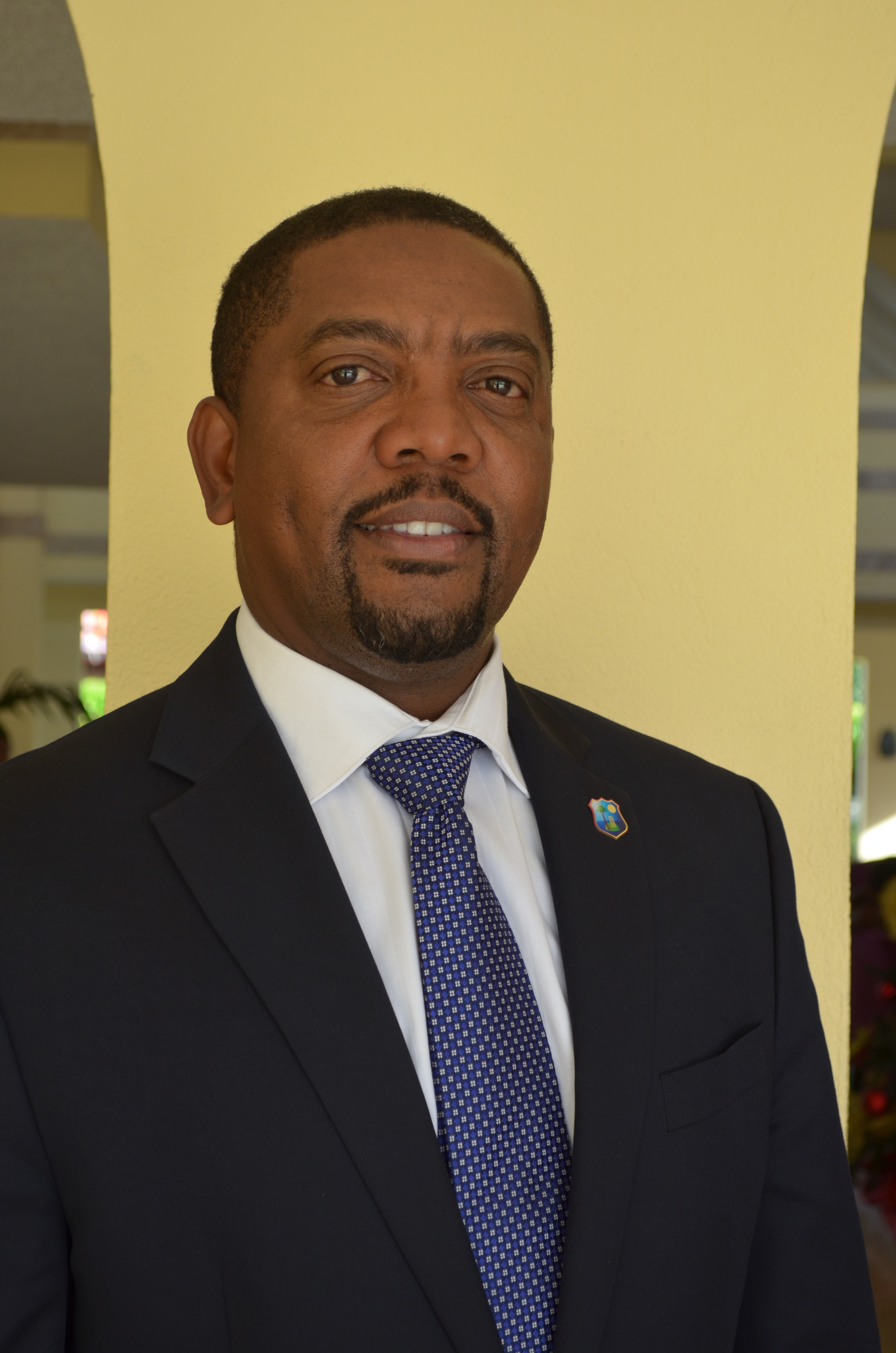 Photo image